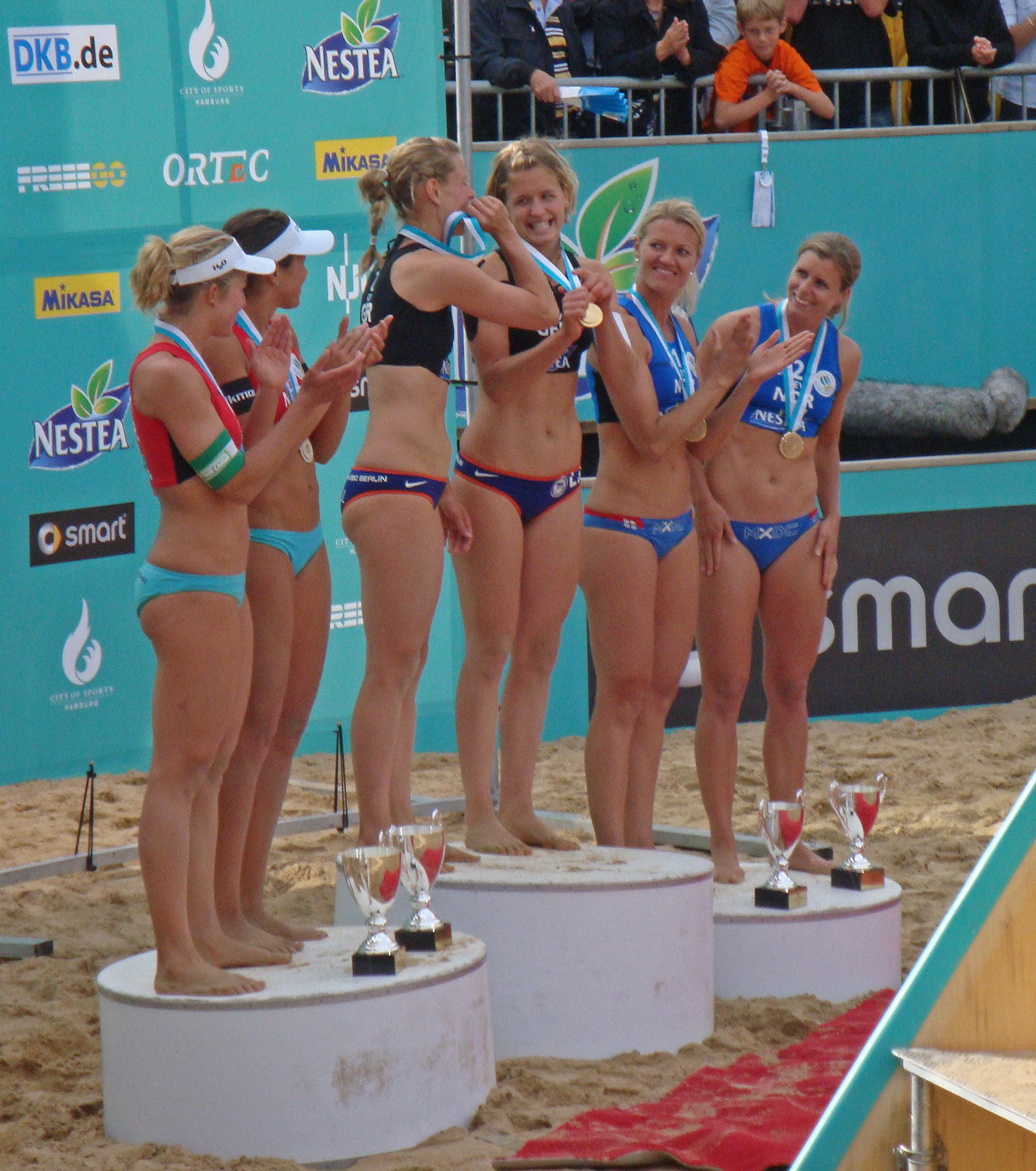 Beach Volleyball EM 2008 in Hamburg, Germany 1st place: Sara Goller & Laura Ludwig, Germany. 2nd place: Nila Haakedal & Ingrid Torlen, Norway. 3rd place: Kathrine Maaseide & Susanne Glesnes, Norway.